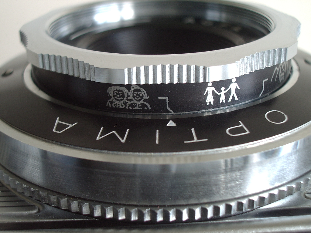 Symbolic distance scale of Agfa Optima camera. Special symbol for portrait: Wilhelm Busch's "Max und Moritz" (famous early german cartoon of the 19th century)